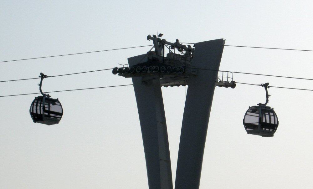 Photograph of the gondolas of the Emirates Air Line gondola lift cable car approaching the north intermediate tower, from the north bank of the River Thames.